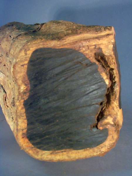 Ébano